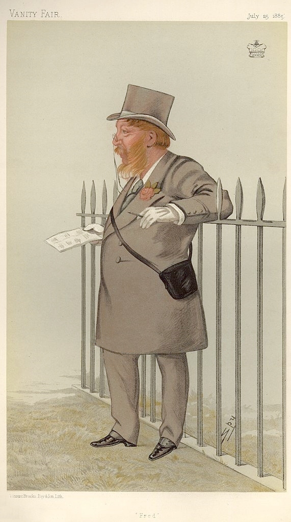 Frederick Gough-Calthorpe, 5th Baron Calthorpe by Leslie Ward